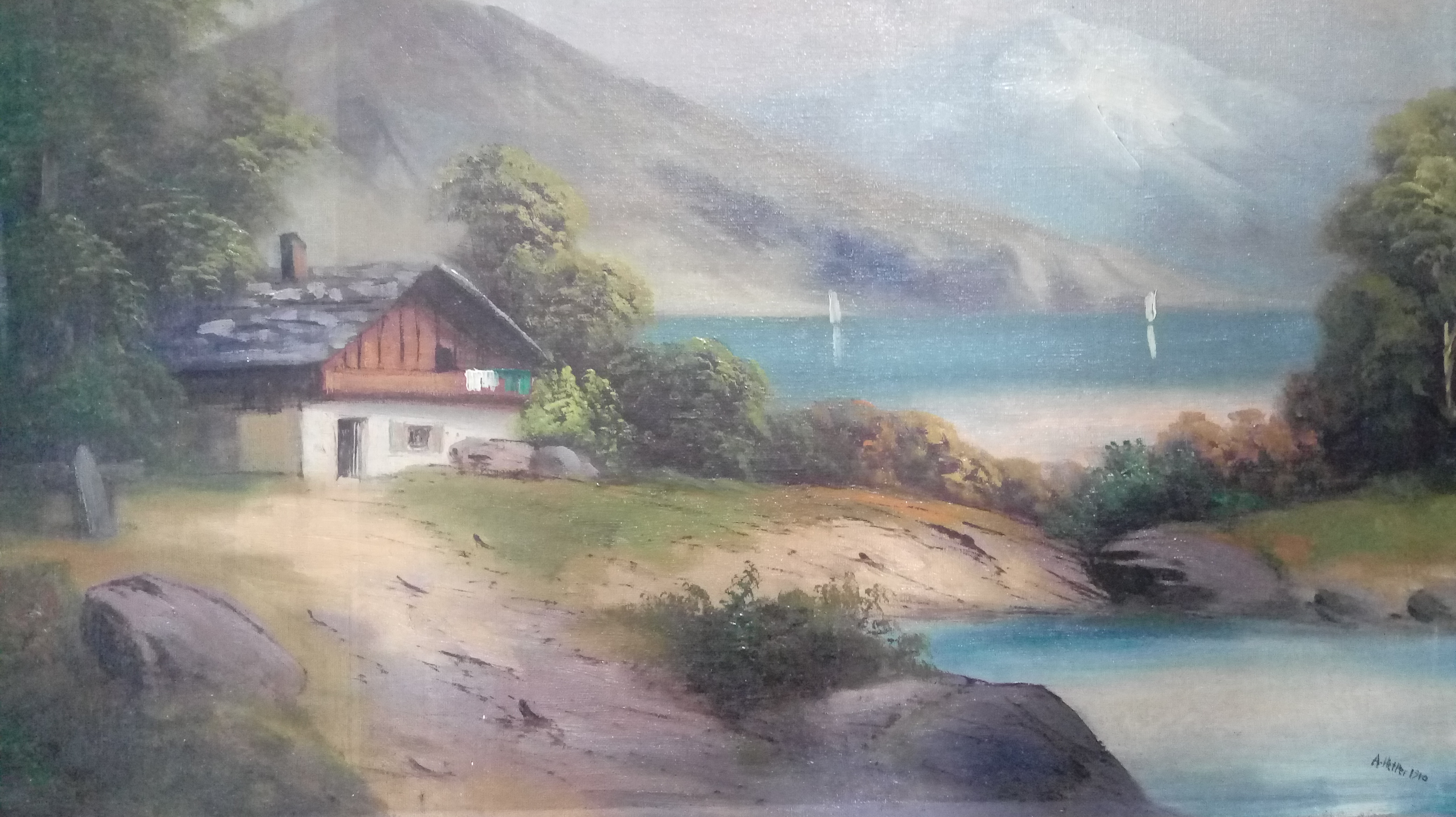 Adolf Hitler 1910: House at a lake with mountains